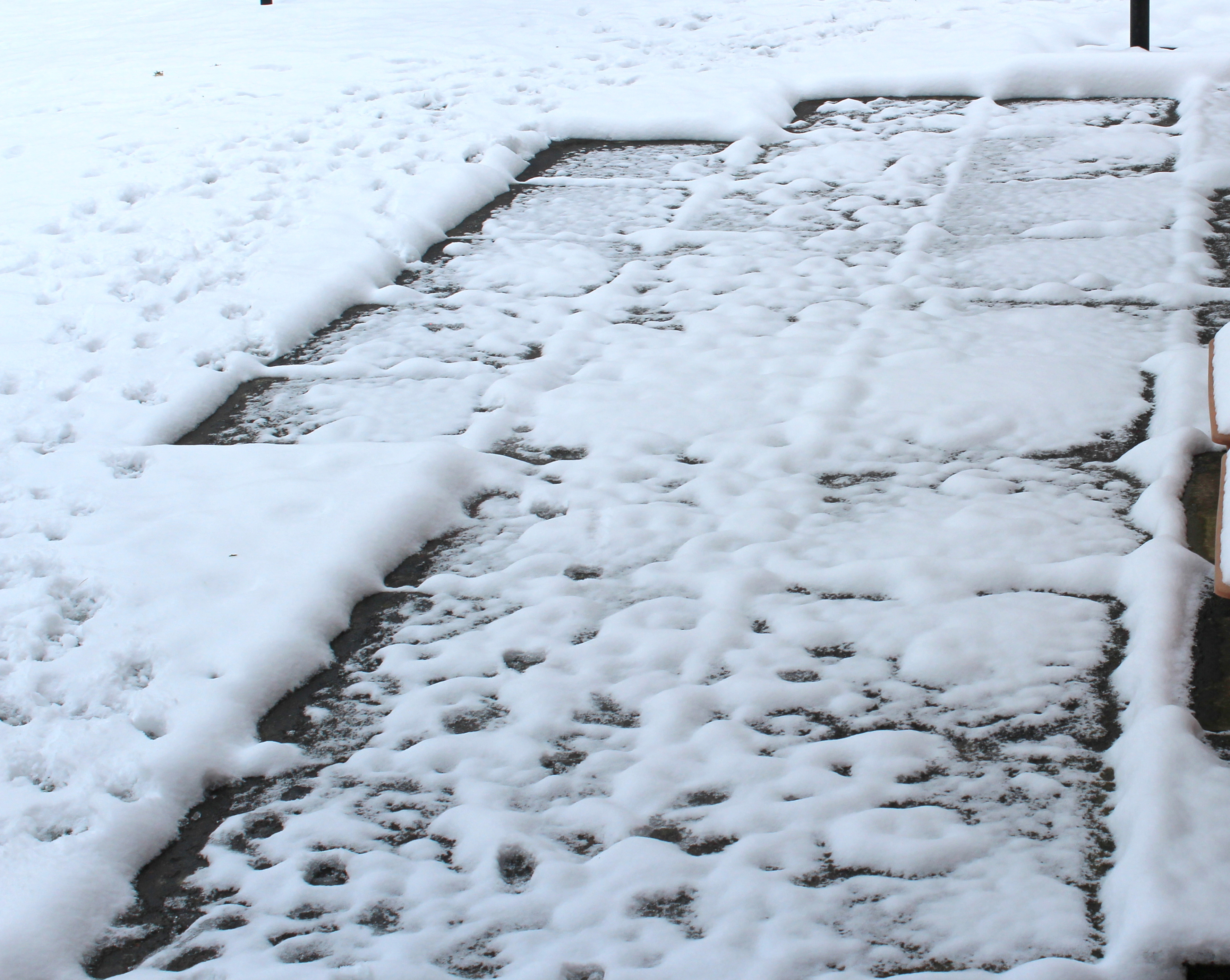 A domestic patio made of 600 mm square paving slabs adjoining a lawn the day after a snowfall. The residual heat in the earth is conducted through the paving slabs much better than through the lawn or the material between the paving slabs. In addition, the paving stones have a higher heat storage capacity than the paving slabs and the grass. This causing different energy input into the snow and thus to different melting, thereby showing up the outline of the paving slabs. At the time that the photograph was taken, the temperature recorded at an airfield less than 10 km away was 0°C; during the preceding 36 hours the highest temperature was also 0°C (midday the previous day) and the lowest temperature was -3°C.